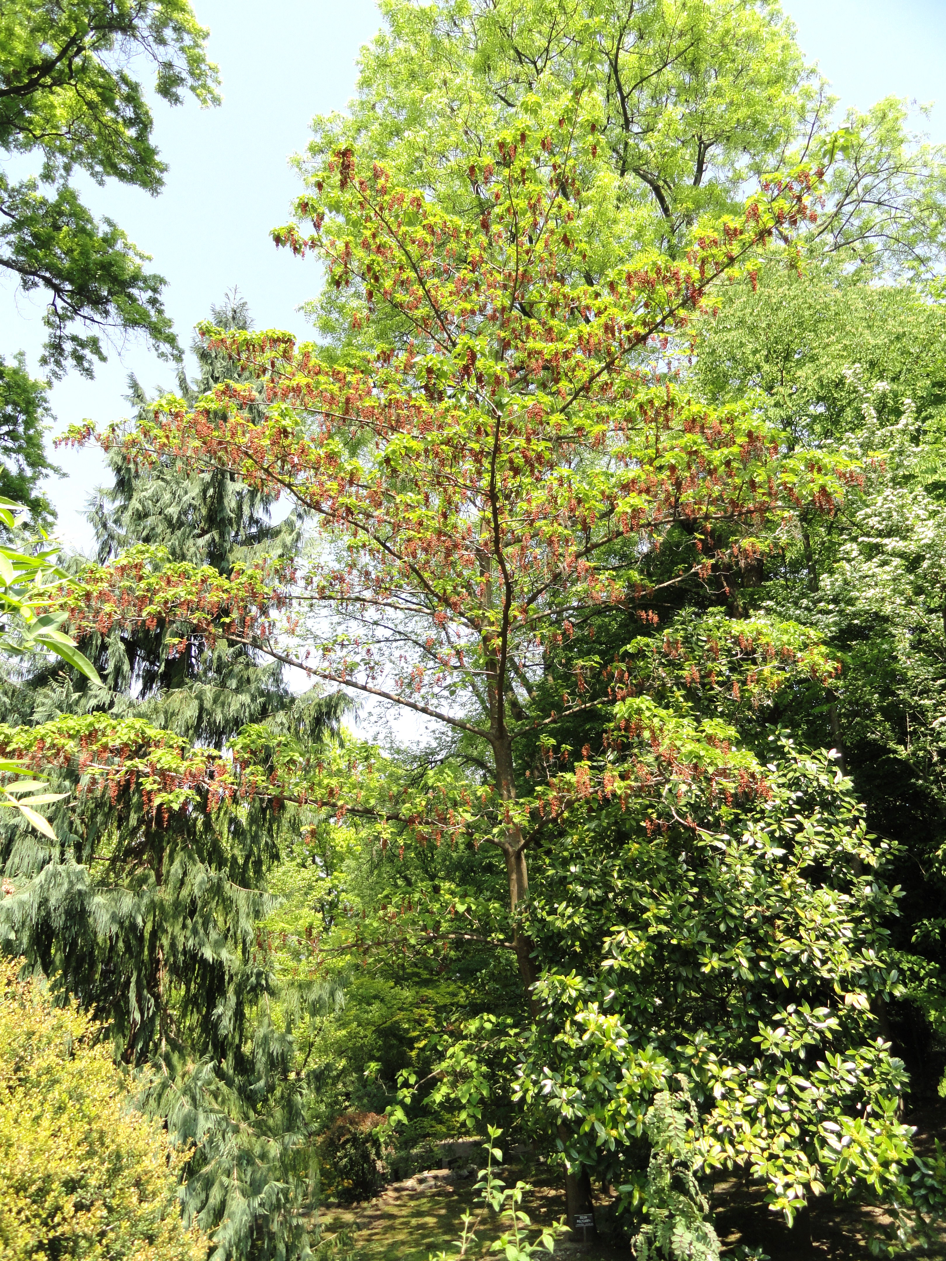 Idesia polycarpa. Botanical specimen on the grounds of the Villa Taranto (Verbania), Lake Maggiore, Italy.